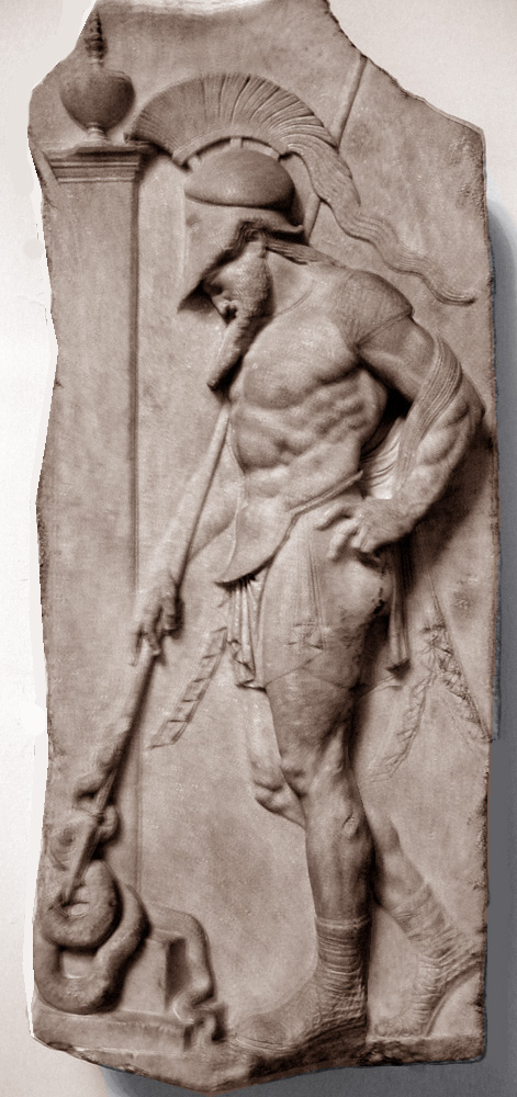 This is the regular non-3D version of the image. To see 3D version, return to thumbnail and click the glasses icon. Use Red-Cyan plastic or paper glasses.